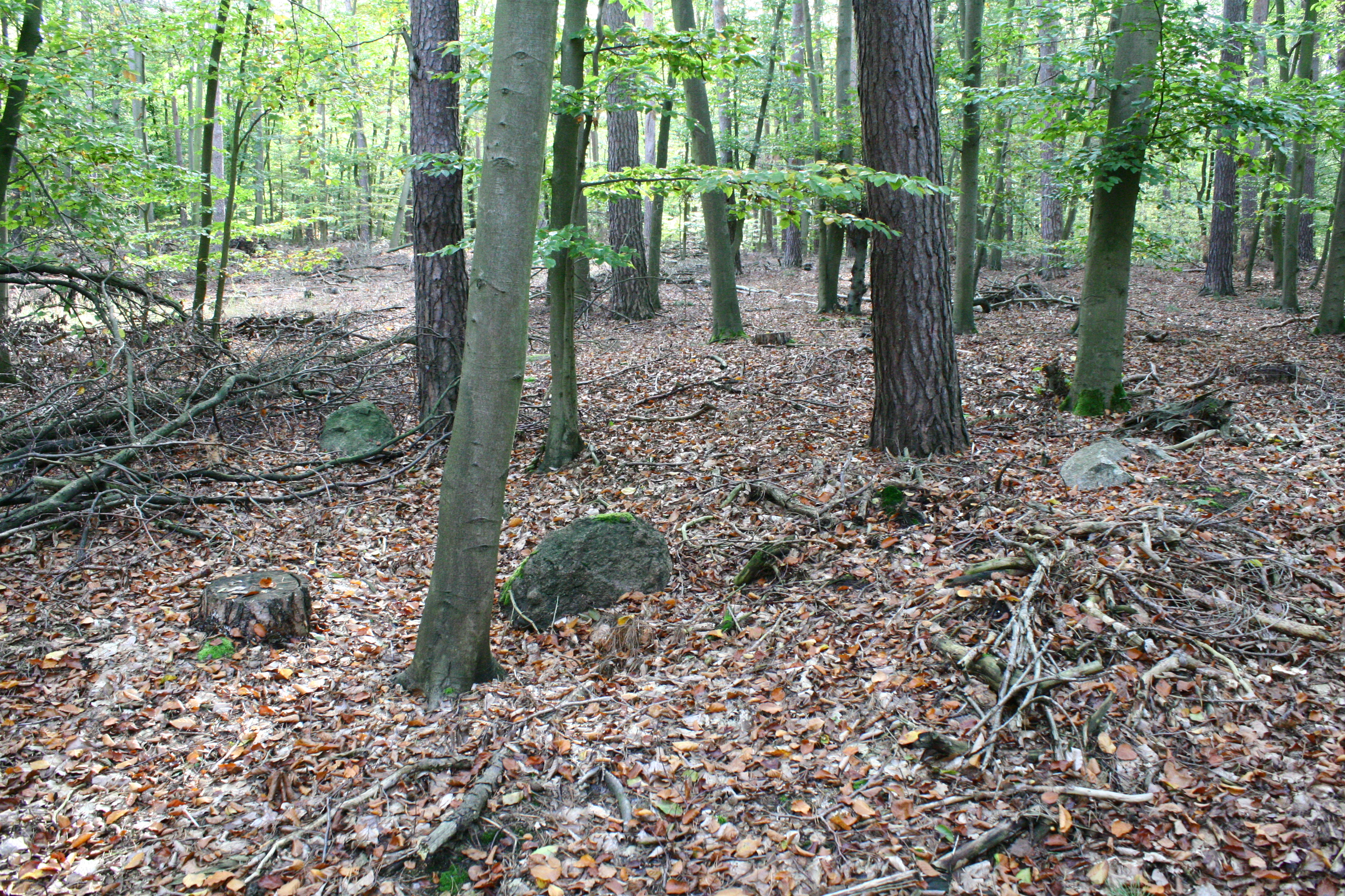 Megalithic tomb Haldensleben I 9